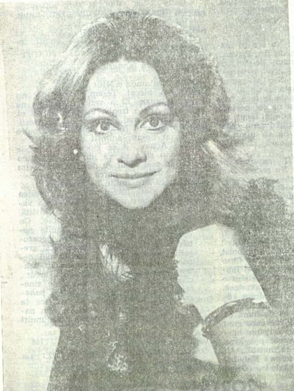 Romanian actress Erzsebet Adam